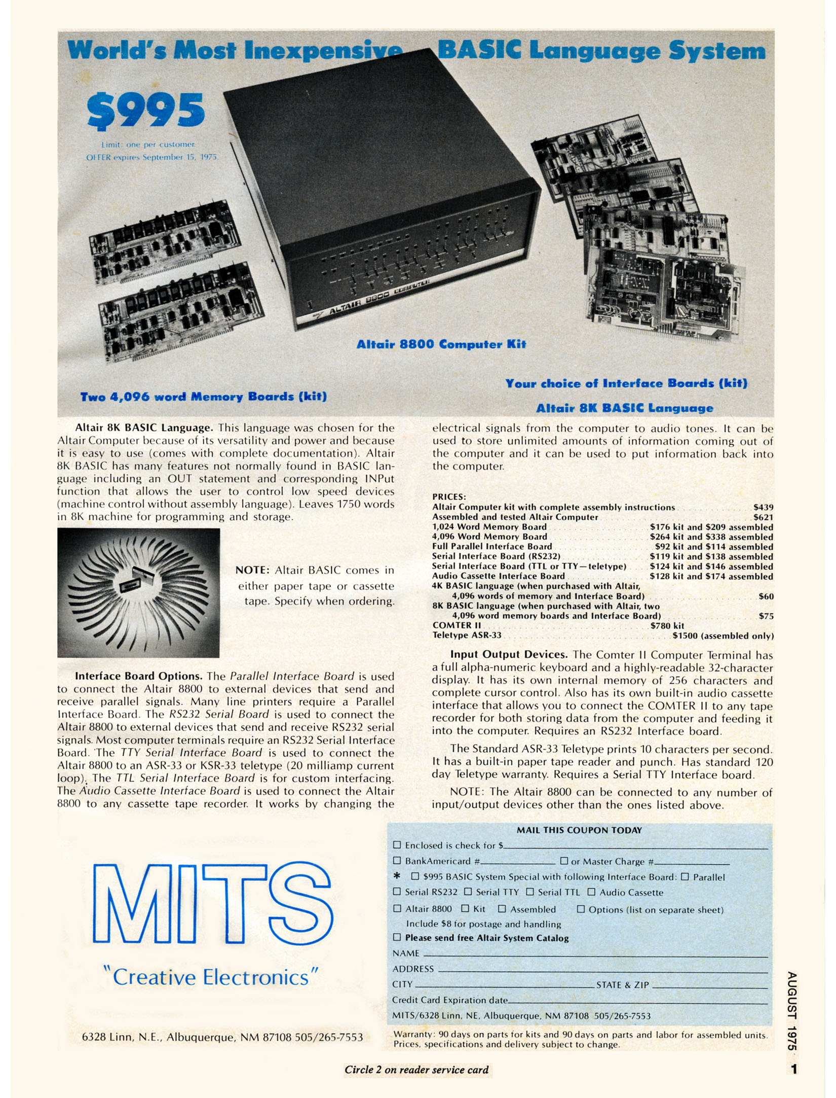 The MITS Altair 8800 computer was the first commercially successful home computer. Paul Allen and Bill Gates wrote Altair BASIC and started Microsoft. This advertisement appeared in Radio-Electronics, Popular Electronics and other magazines in August 1975.